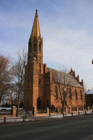 Church in Lietzow in Brandenburg, Germany